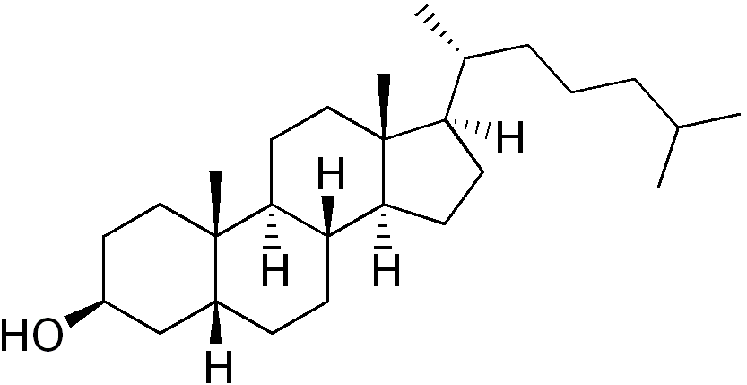 chemical structure of coprostanol